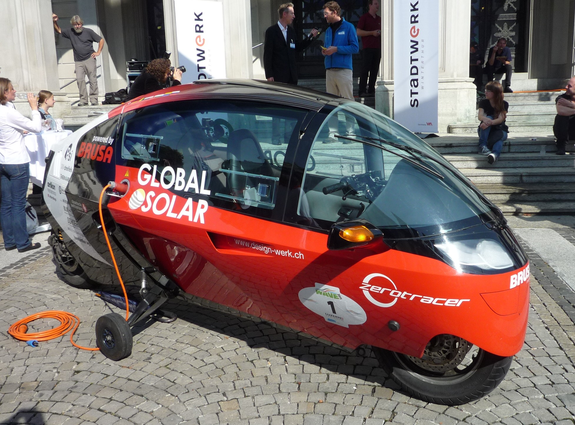 Zerotracer - winner of the Zero Emission Race competition seen here in its home town of Winterthur. In the Background Louis Palmer who organized the race and was himself the first man to circumnavigate the earth by a solar driven vehicle.